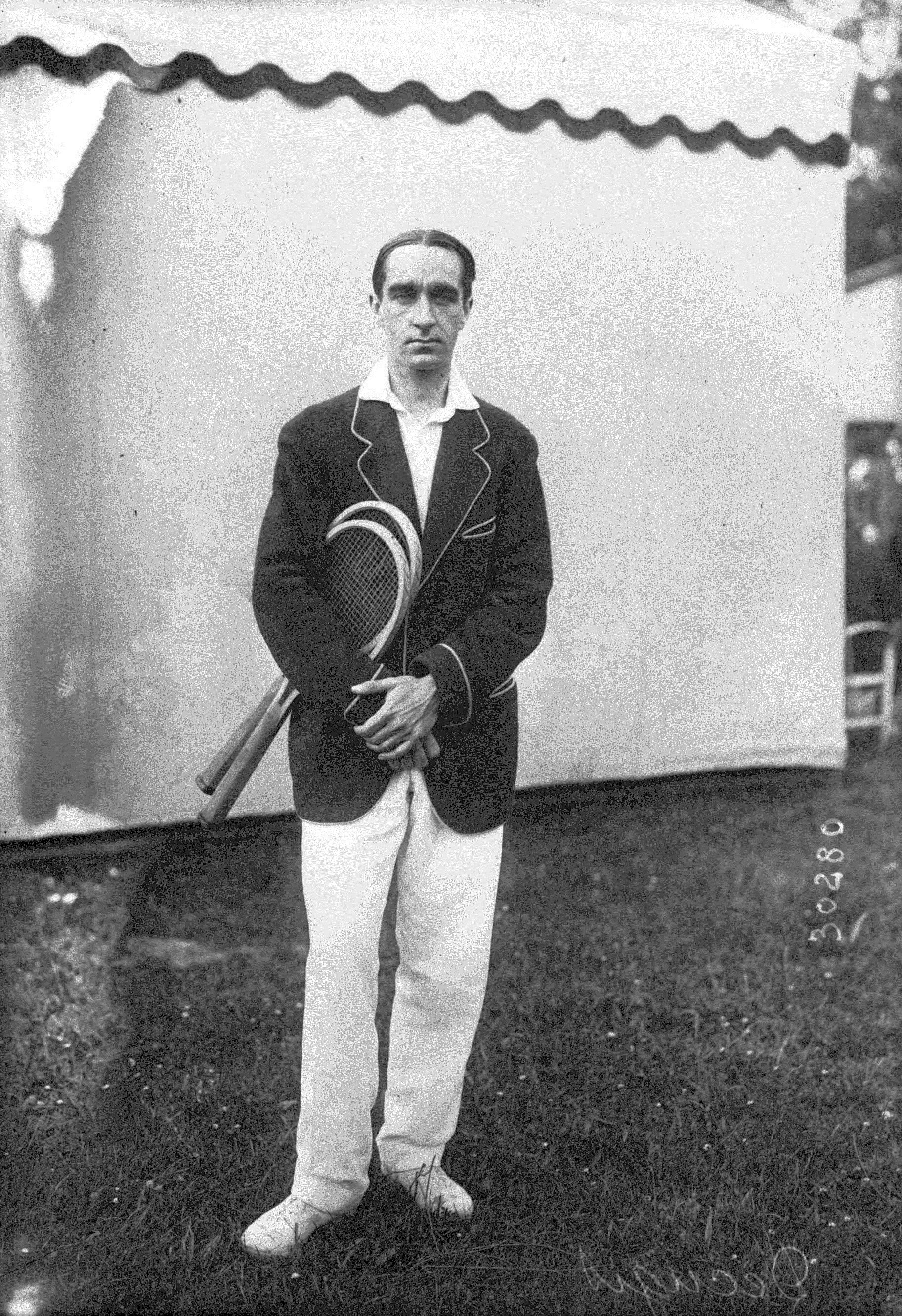 Max Decugis